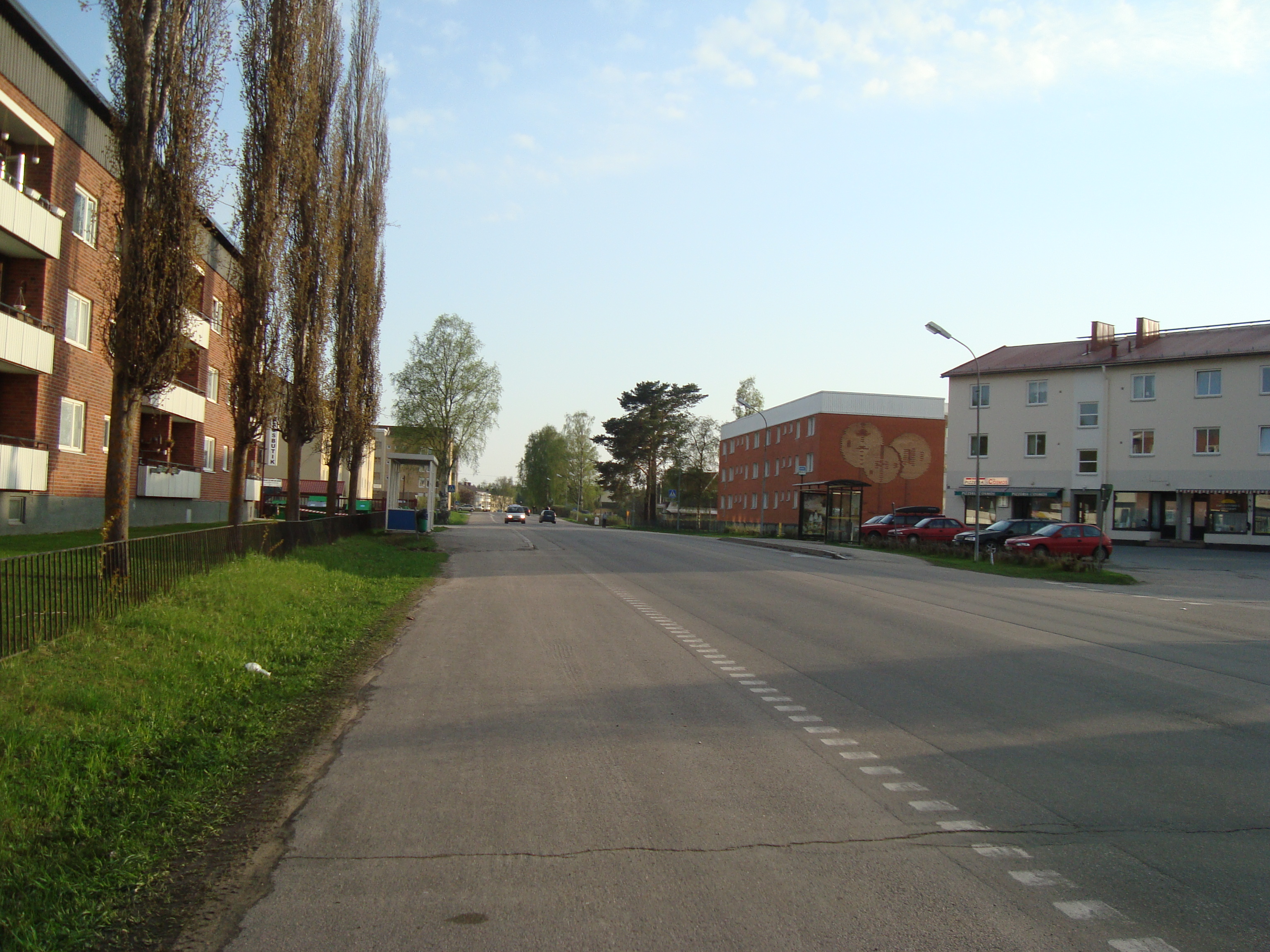 Sörberge, Sweden. A picture of a part of Sörberge town centre. Sörberge is a part of the town of Timrå.